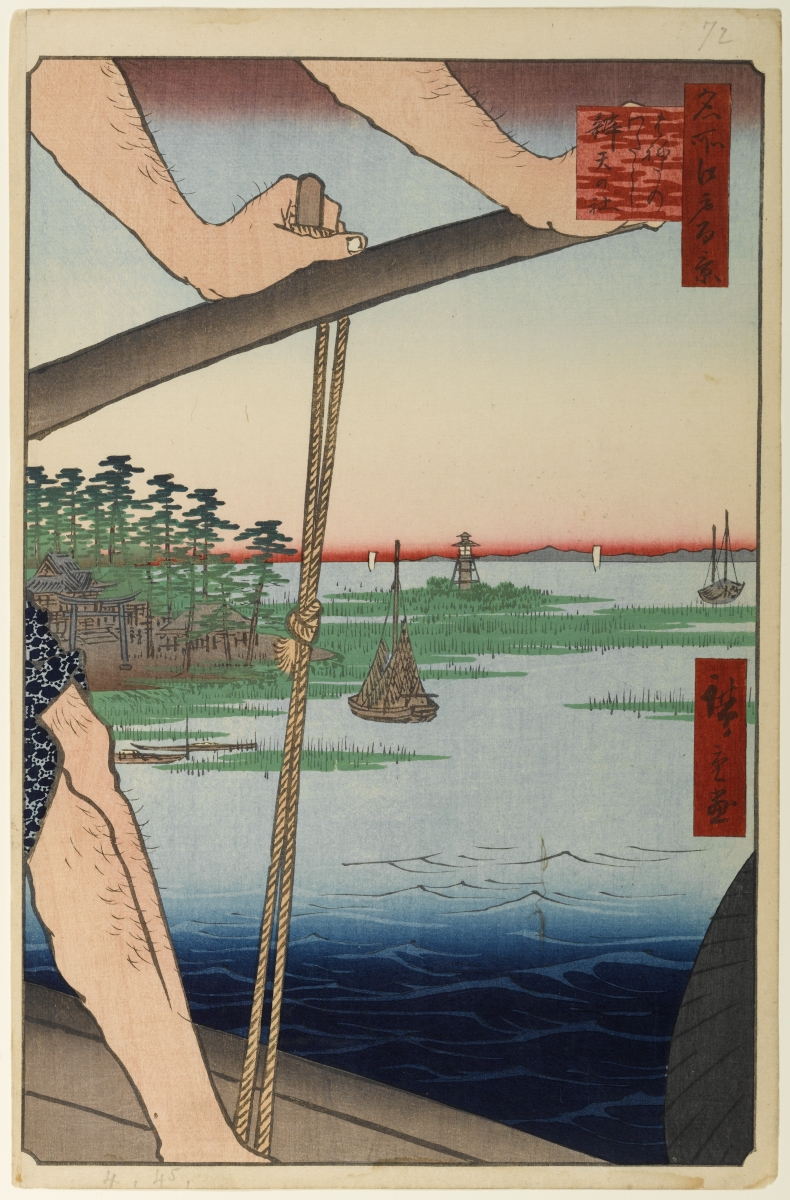 Part of the series One Hundred Famous Views of Edo, no. 072, part 2: Summer.